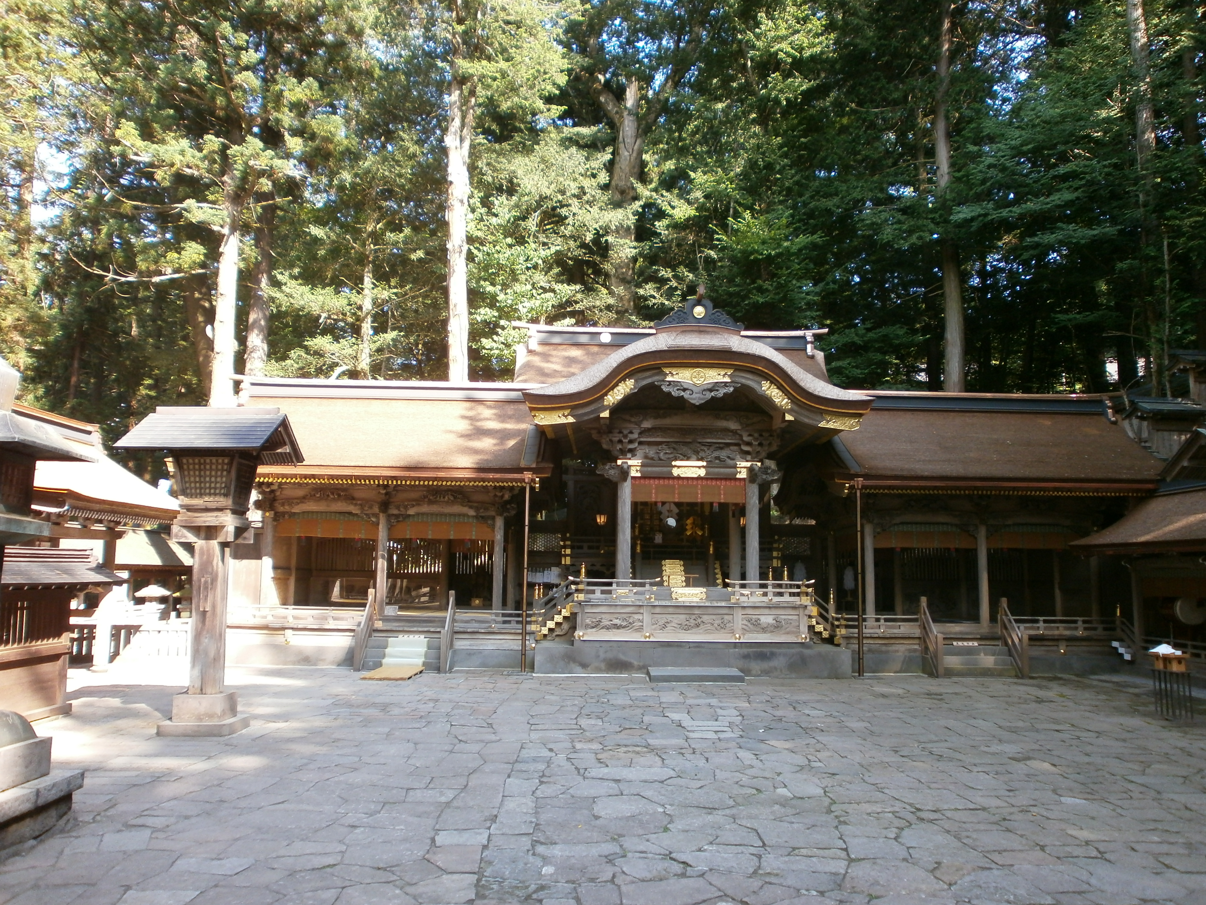 Suwa Taisha